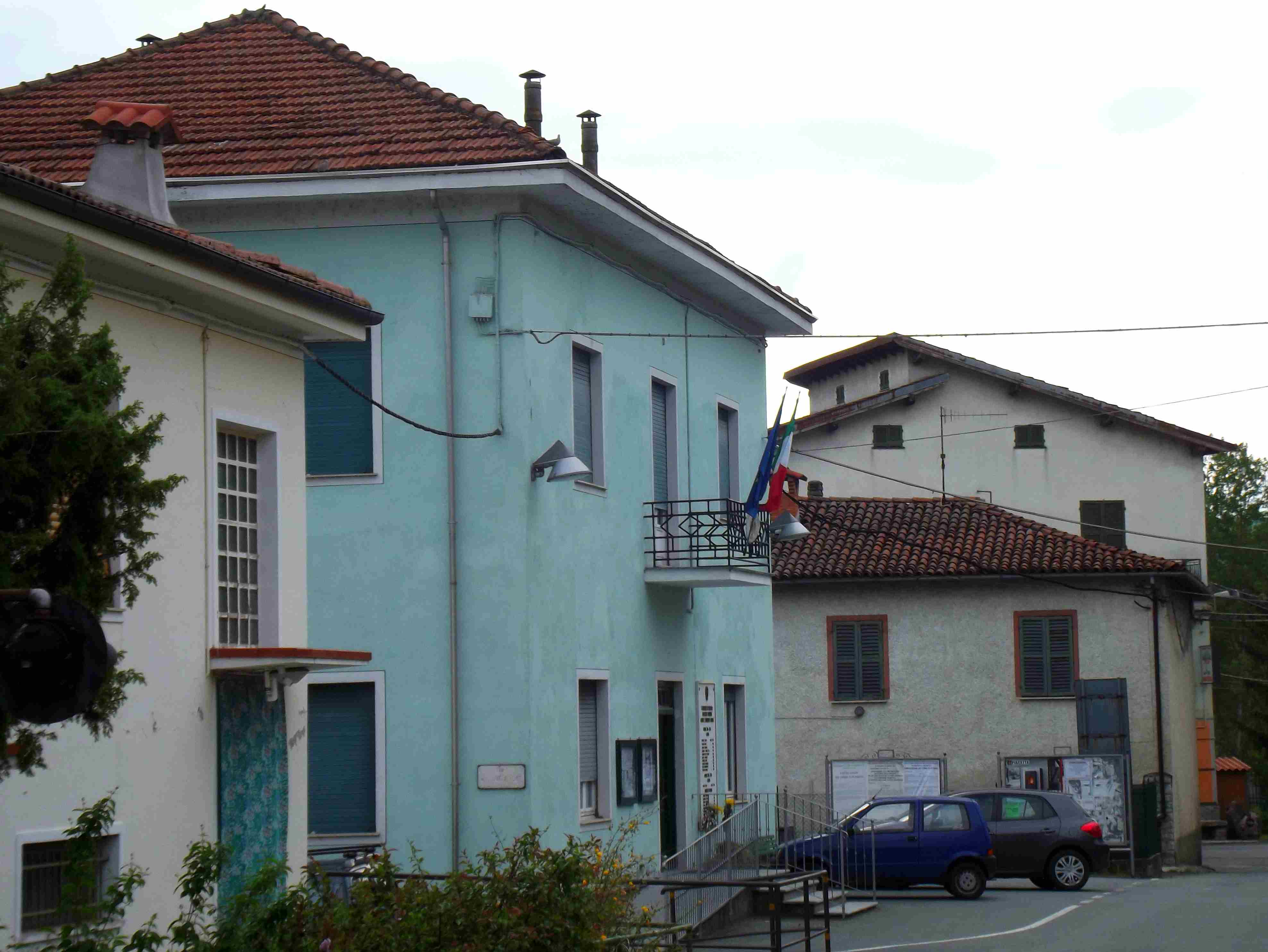 Merana (AL, Italy): town hall